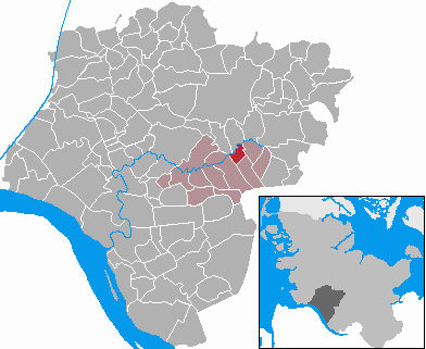 This map shows the area of the municipality Breitenberg in the Kreis (district) Steinburg, Schleswig-Holstein, Germany.